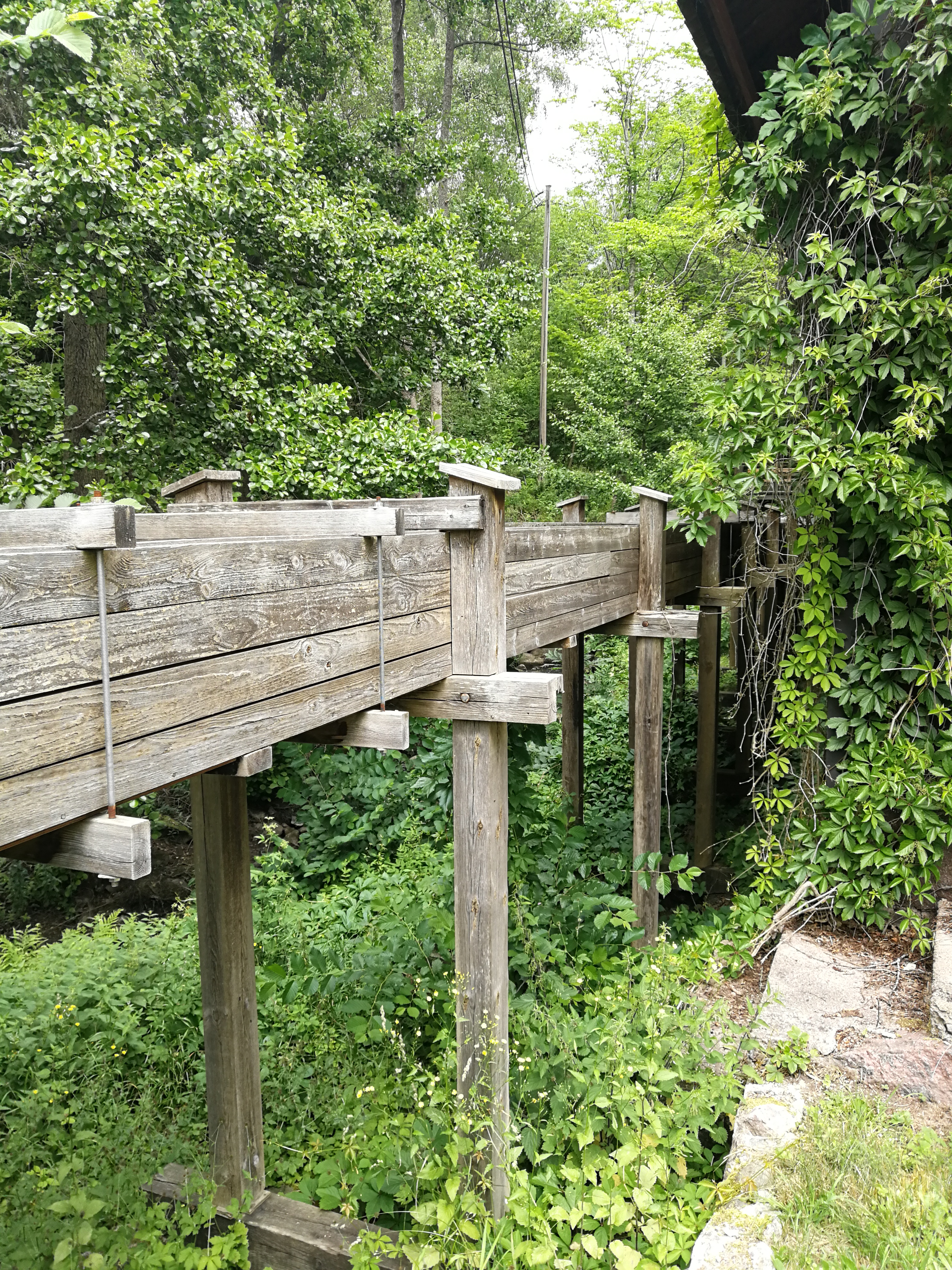 Svintuna water mill in Krokek